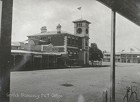 Kempsey Post and Telegraph Office Dated: Day Month Year or No date Digital ID: [Kempsey%20Post%20and%20Telegraph%20Office 4346_a020_a020000096] Rights: We'd love to hear from you if you use our photos. Many other photos in our collection are available to view and browse on our website using Photo Investigator.